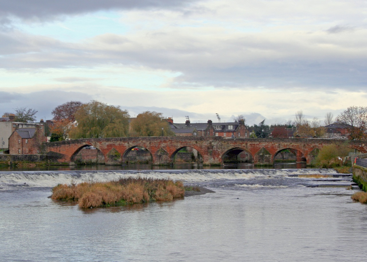 Old Bridge, Dumfries